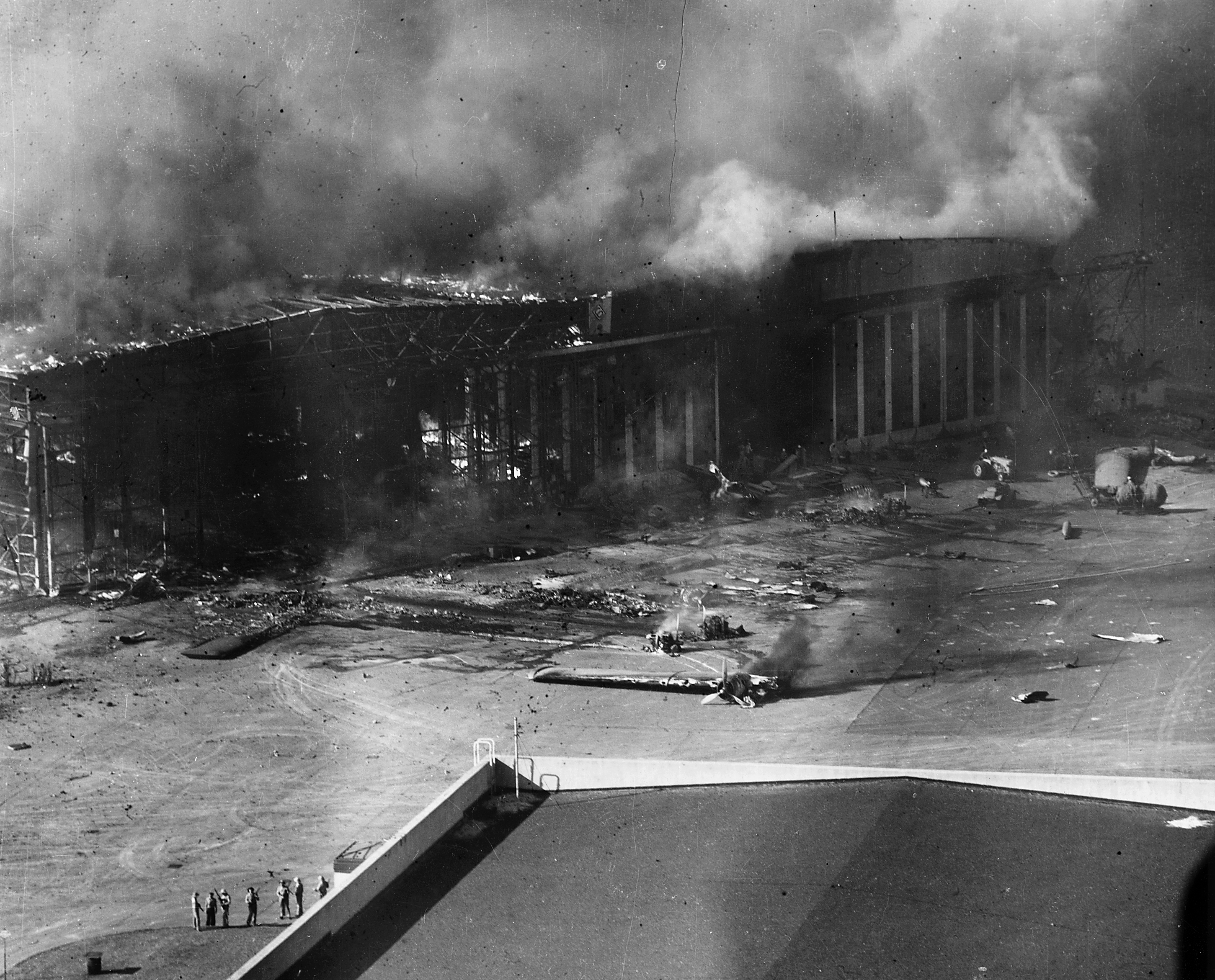 U.S. Navy planes and a hangar burning at the Ford Island Naval Air Station's seaplane base, during or immediately after the Japanese air raid on Pearl Harbor, Hawaii (USA), on 7 December 1941. The ruined wings of a Consolidated PBY Catalina patrol plane are at left and in the center. Note men with rifles standing in the lower left.